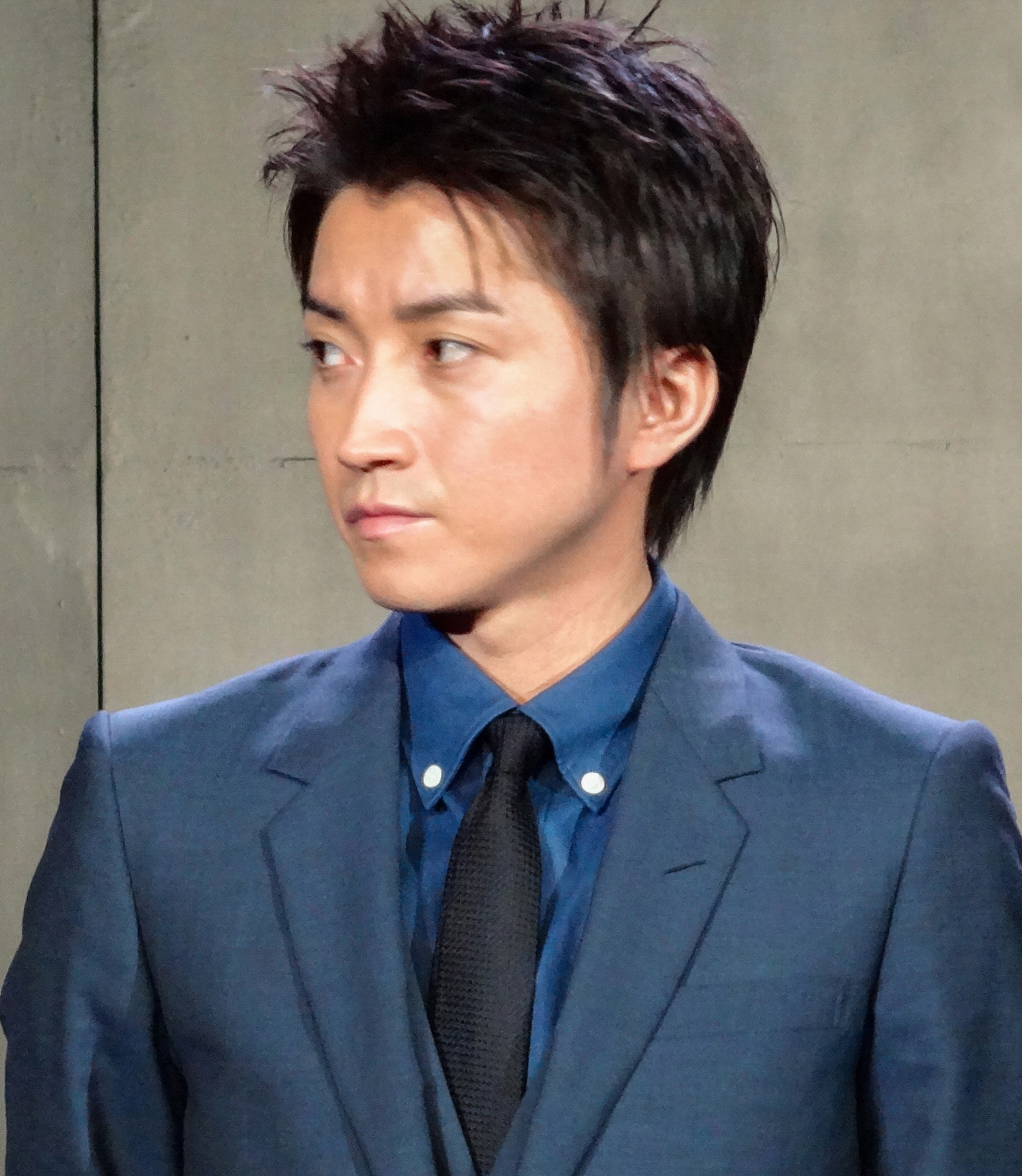 Rurouni Kenshin: Kyoto Inferno / The Legend Ends, Red Carpet Premiere: Fujiwara Tatsuya